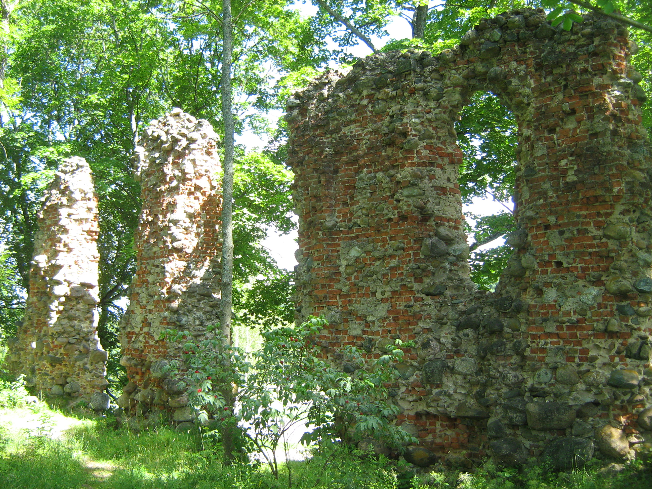 Alūksne Castle, remains of the eastern wall of the convent building, from inside. Unlike most of the (still visible) outer walls, the convent building seems to have been made of bricks.